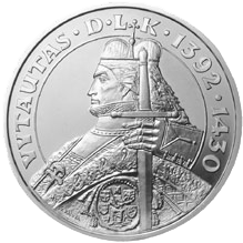 50 litas coin issued to honour Vytautas, the Grand Duke of Lithuania (From the series "The Rulers of Lithuania") Silver Ag 925 Quality proof Diameter 34.00 mm Weight 23.30 g The words on the edge of the coin: IS PRAEITIES TAVO SUNUS TE STIPRYBE SEMIA* (FROM THE PAST LET YOUR SONS DERIVE THEIR STRENGTH) The designer of the coin is Antanas Zukauskas Mintage 2,500 pcs Issued 2000 Distribution terminated 2005 Distributed 2,500 pcs The coin was minted at the state enterprise Lithuanian Mint.